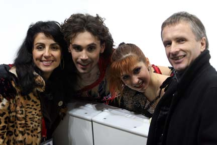 Jana KHOKHLOVA and Sergei NOVITSKI at the boards with their coachs Irina Zhuk and Alexander Svinin at the 2007-2008 Grand Prix Final